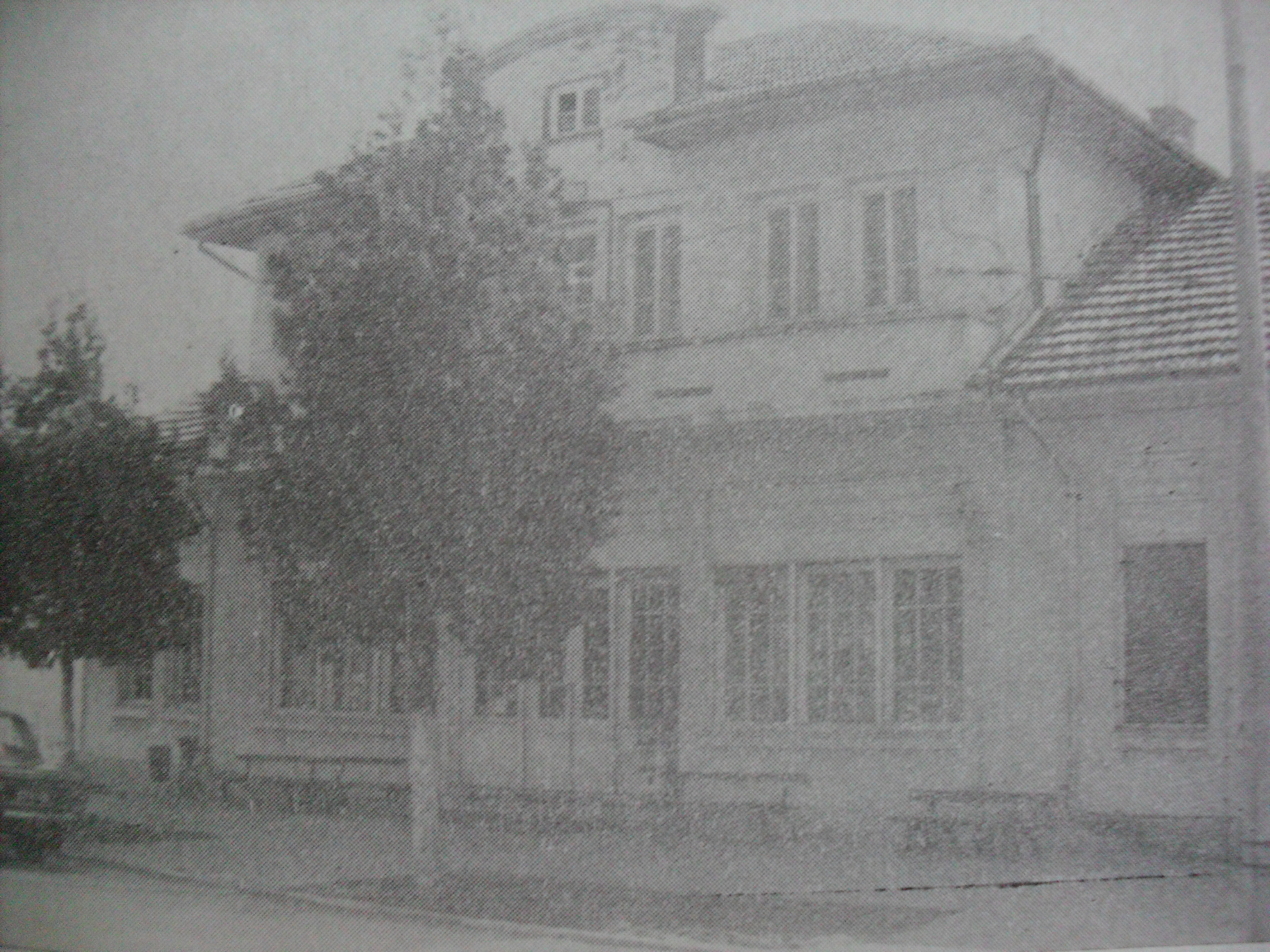 New building in Polski Senovets